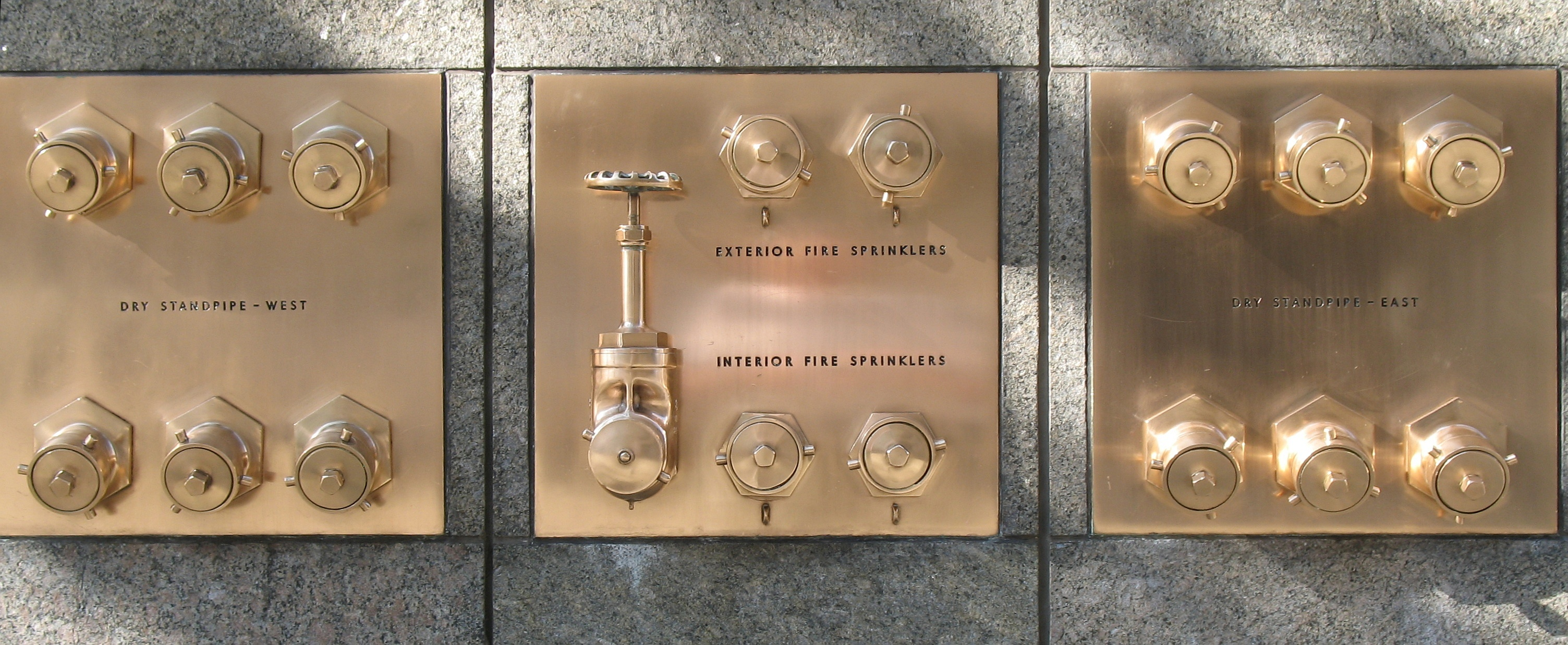 External access point for fire sprinkler and dry standpipe at 650 California Street in San Francisco